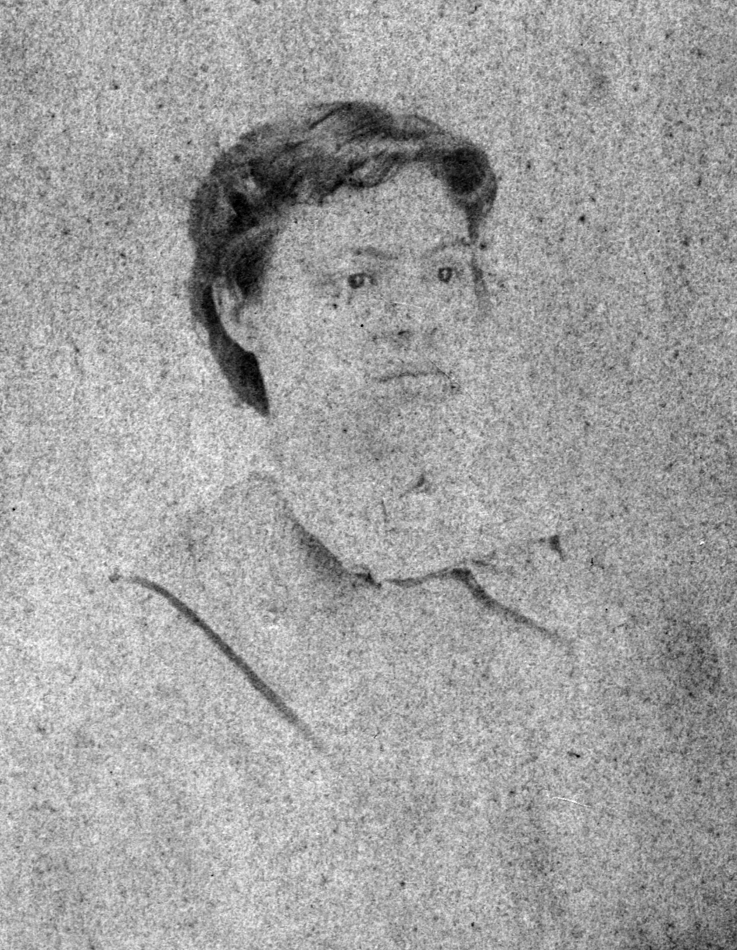 Every, Eva L. (known as Eva Emery Dye) About 1874 (visiting card)